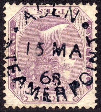 This is a stamp of British India, postmarked at Aden Steamer Point 15 March, 1868. The cancellation is Pratt's K.2